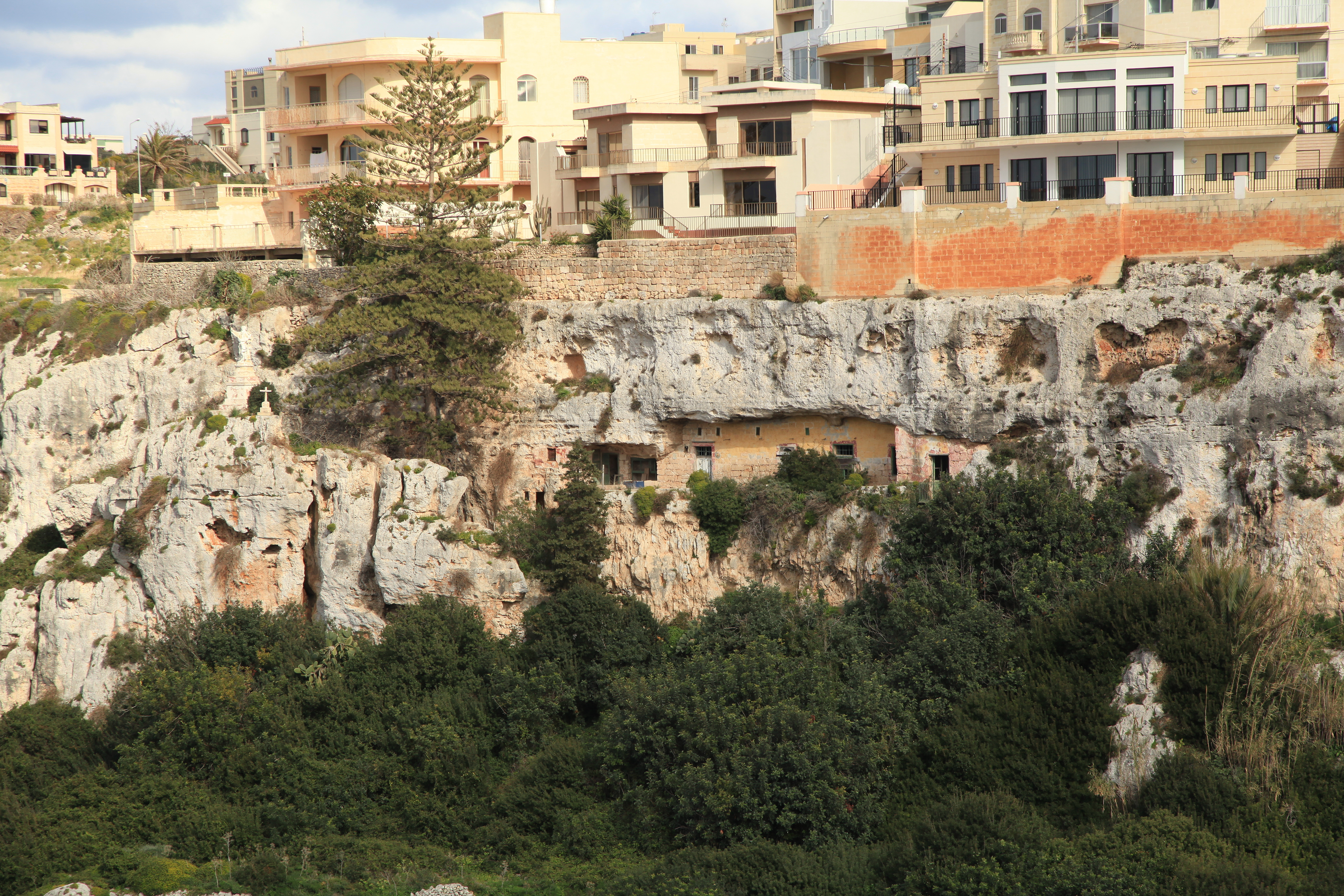 View from Triq l-Erwieħ to Triq l-Għerien in Mellieħa, Malta